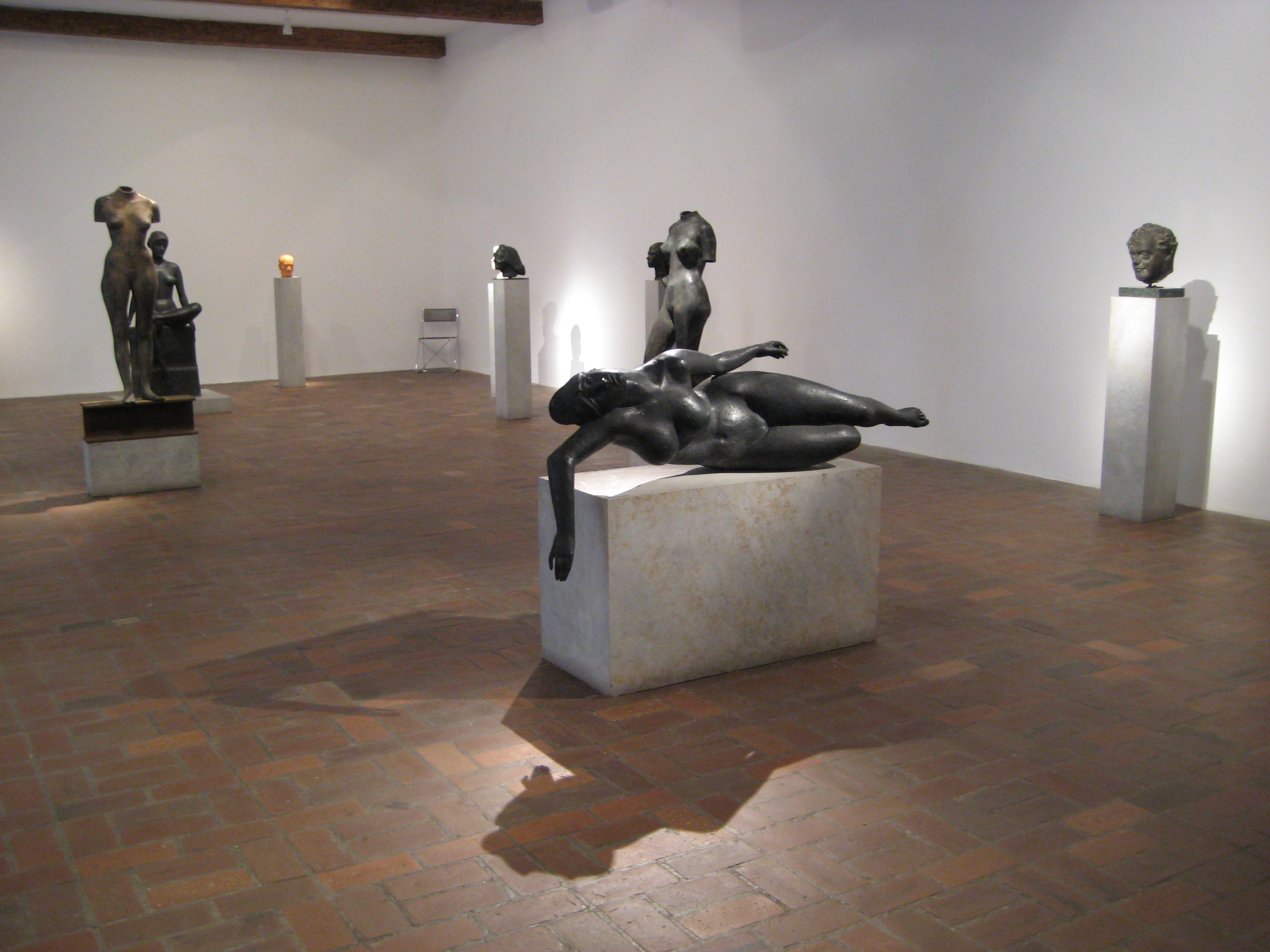 Museum in Veste Oberhaus, Passau